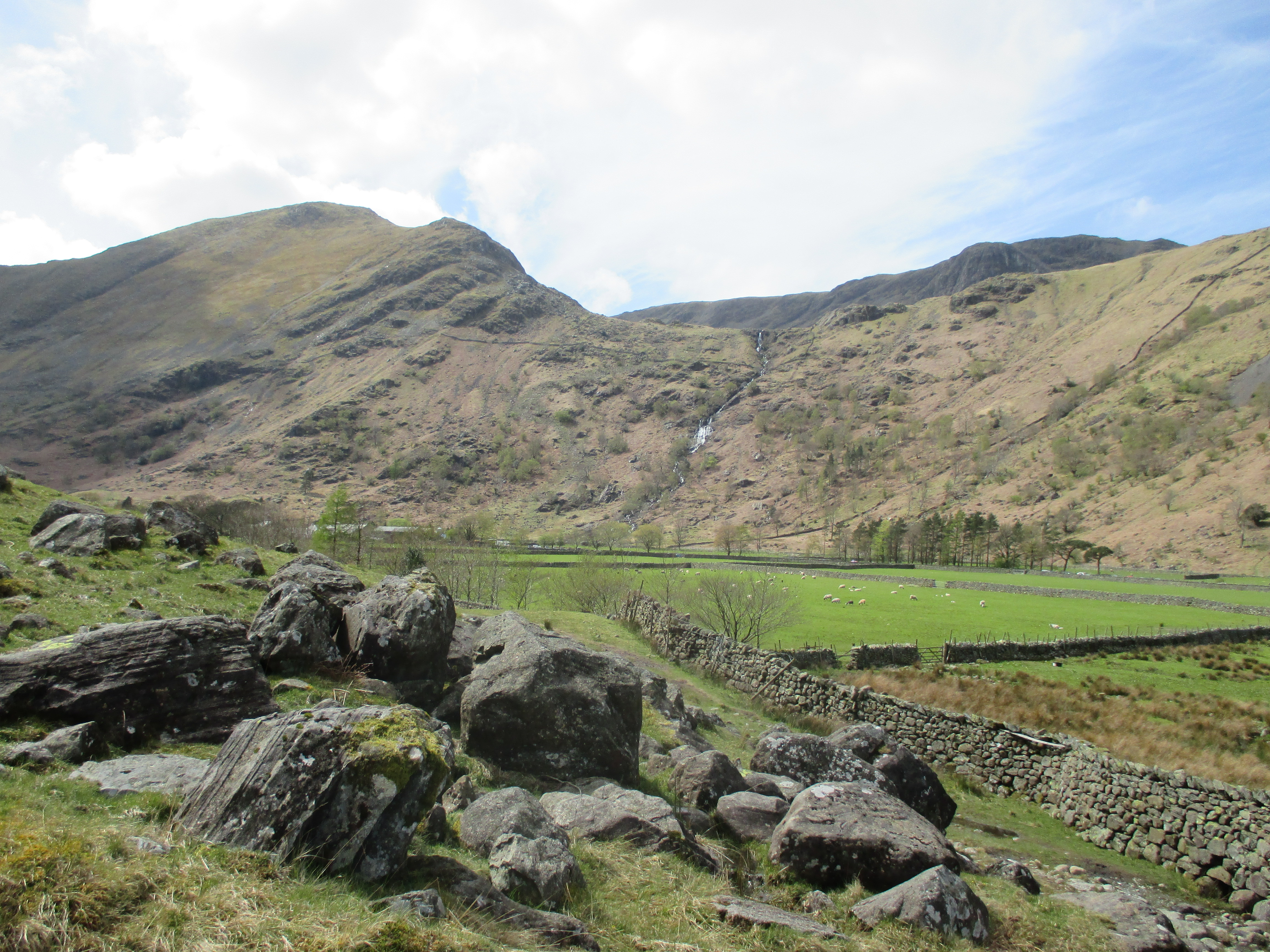 Base Brown, a fell above Seathwaite, Cumbria, photographed from the north-east. Base Brown is to the left, Sourmilk Gill is to its right.